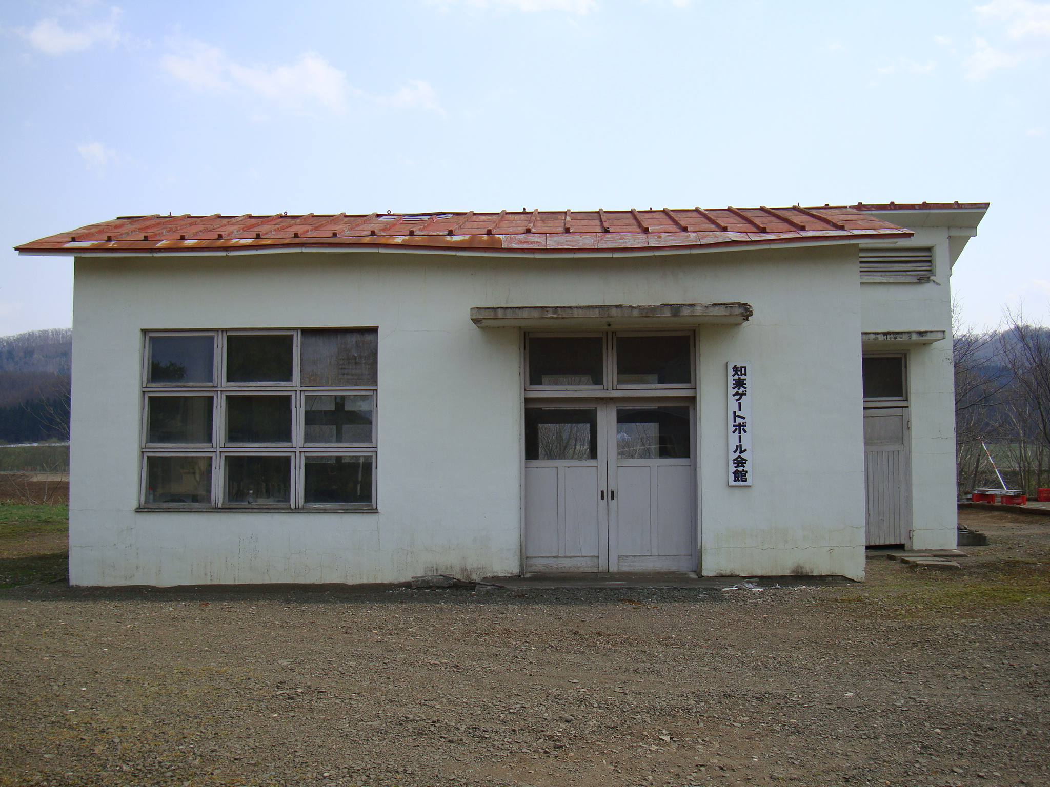 Chirai Gate ball Hall. Disused train stations on Yūmō Line.